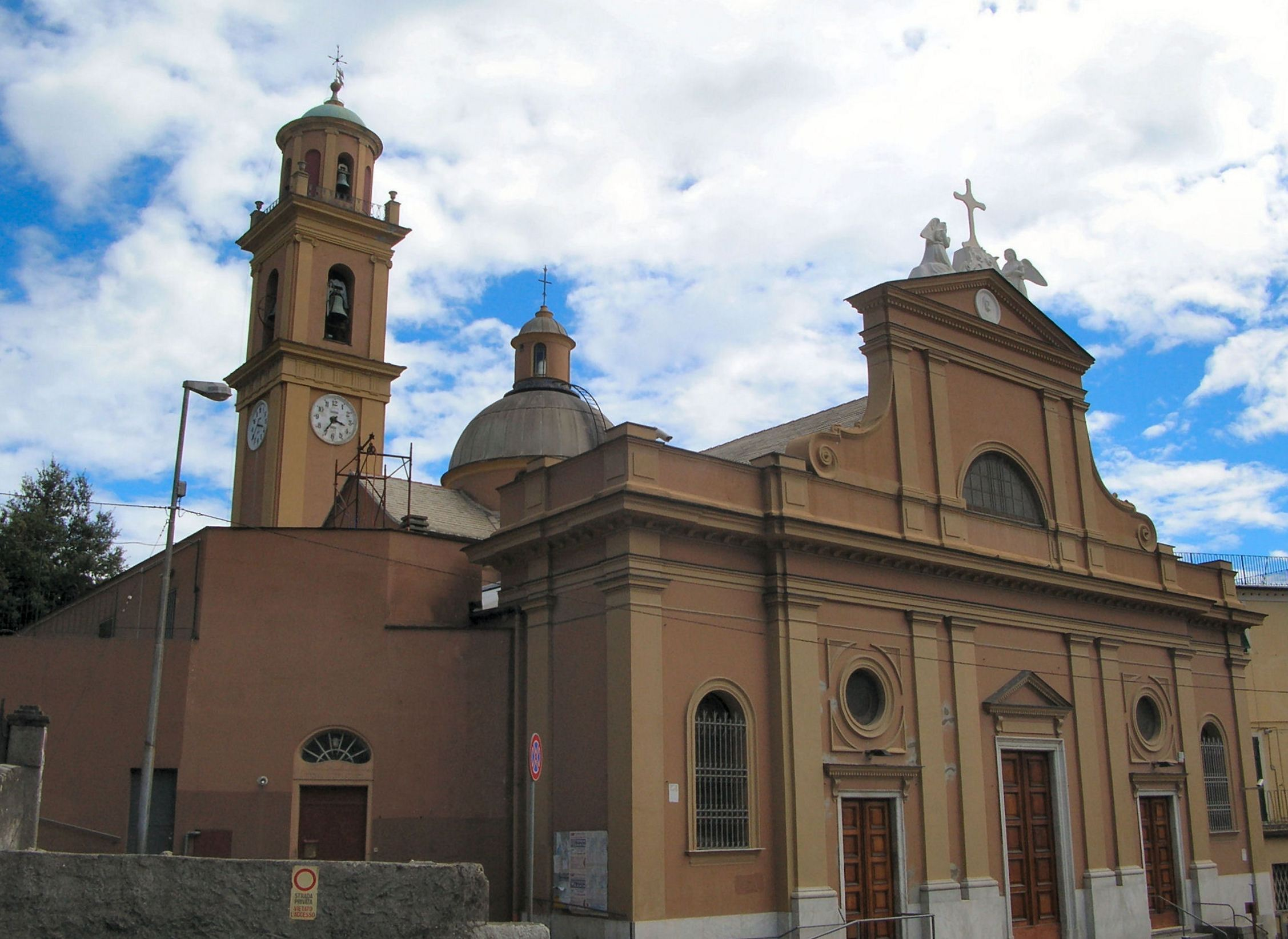 Genoa (Italy), quarter of Rivarolo, the church of Santa Maria Assunta